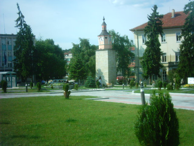 The clock tower in Byala; the building of the Municipality to the right